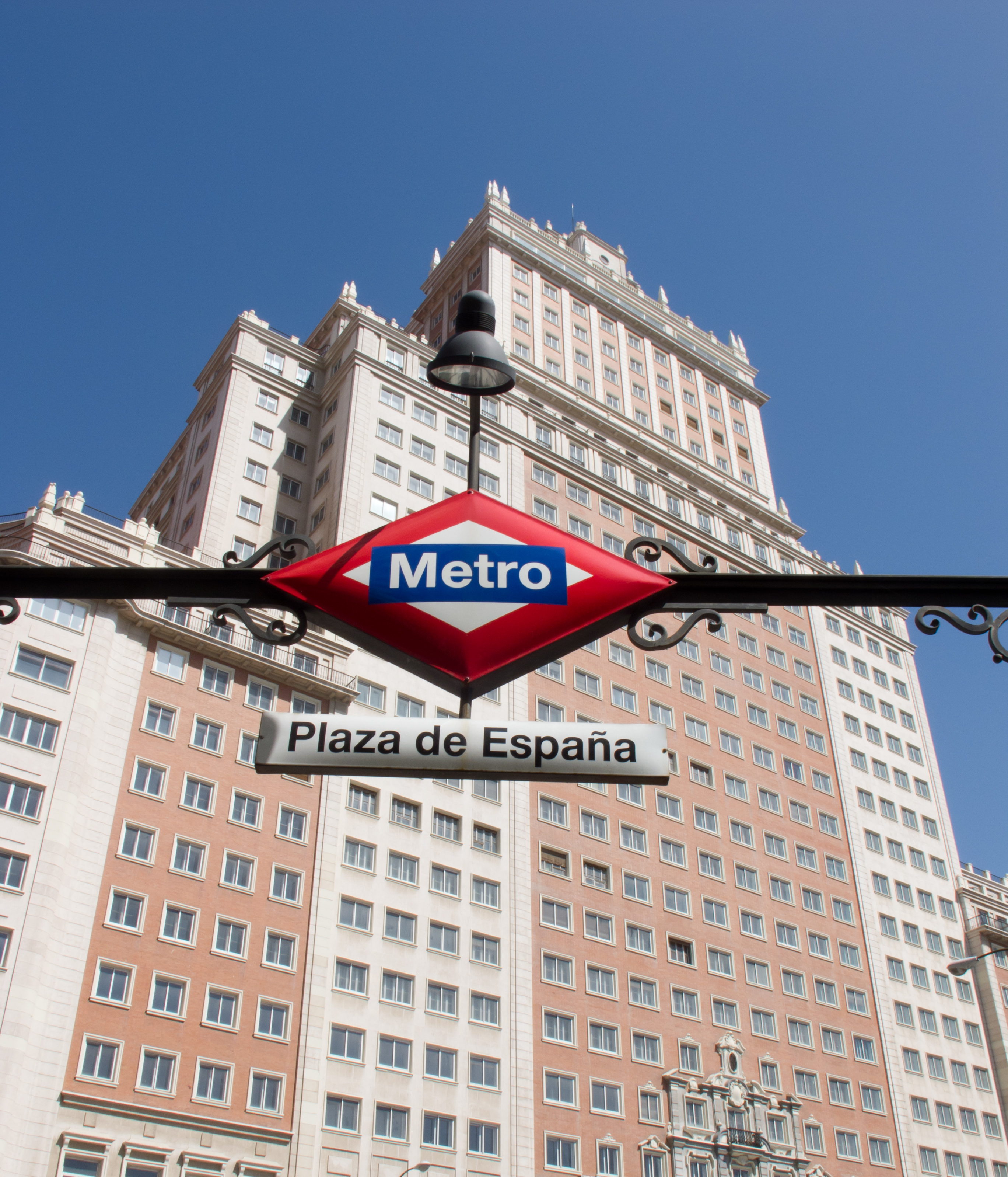 España Building with Plaza de España Metro Station in foreground (Madrid, Spain).